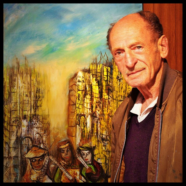 Portrait of Alex Mendelssohn by Jason Munn, Australia